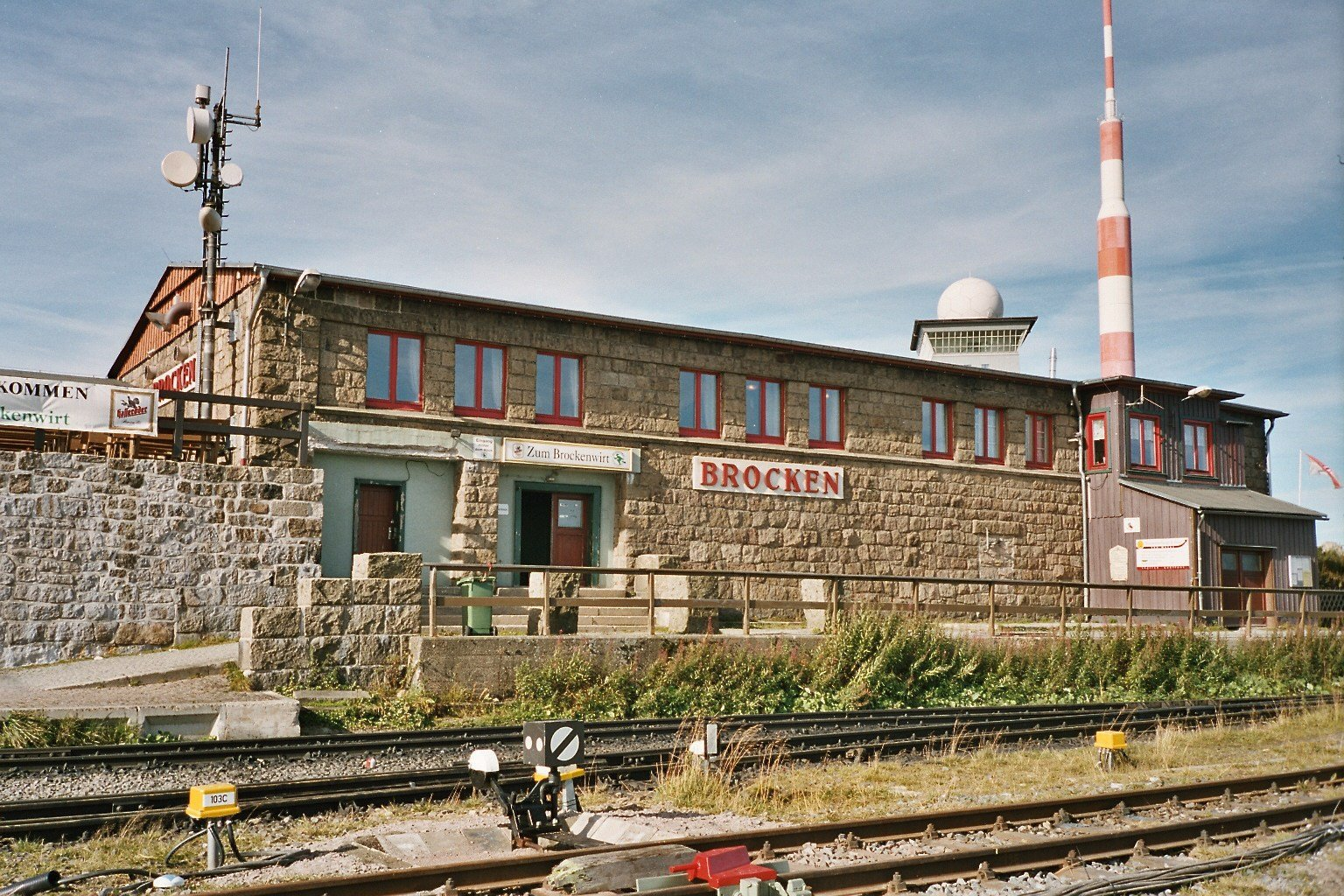 Station of the Brockenbahn on the mountain Brocken. Source: Photo taken by and originally uploaded by benutzer:Markus_Schweiß to Bild:Brockenbahnhof.jpg: 17:34, 22. Sep 2004 . . Markus Schweiß . . 1536 x 1024 (503323 Byte) (Der Bahnhof der Brockenbahn auf dem Brocken, eigenes Bild, GNU FDL)